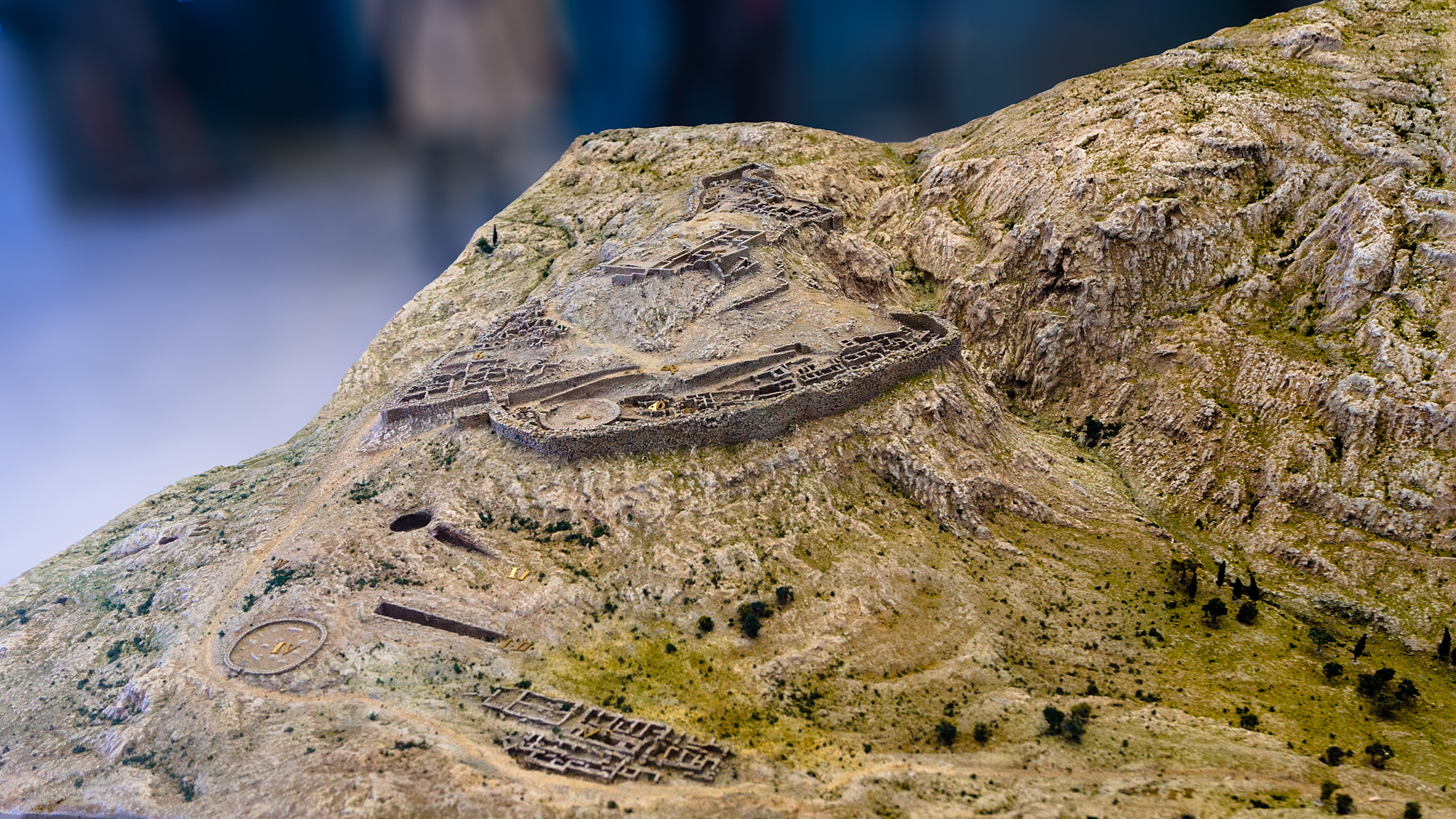 3D plan of Mycenae, Peloponnese, Greece. Monuments are numbered as folllows: II - Tholos tomb of Aegisthus; III - Tholos tomb of Clytemnestra; IV - Grave circle B; V - Perseia fountain house; VI - The house of the oil merchant group; VII - Lion tholos tomb; VIII - "Treasury of Atreus"; IX - Panagia houses; 1 - Lion gate; 2 - Granary; 3 - Grave circle A; 4α - Ramp house; 4β - House of the warrior vase; 4γ - Great ramp; 4δ - Hellenistic chambers; 5 - Cult centre; 6 - North quarter, Buildings of the North slope; 7 - Propylon of the palace; 8 - Palace; 9 - Temples of historical times; 10 - Artisan's quarter; 11 - House of columns; 12 - Building delta; 13 - Building gamma; 14 - Northeast extension; 15 - Underground cistern; 16 - North storerooms; 17 North (Postern) gate